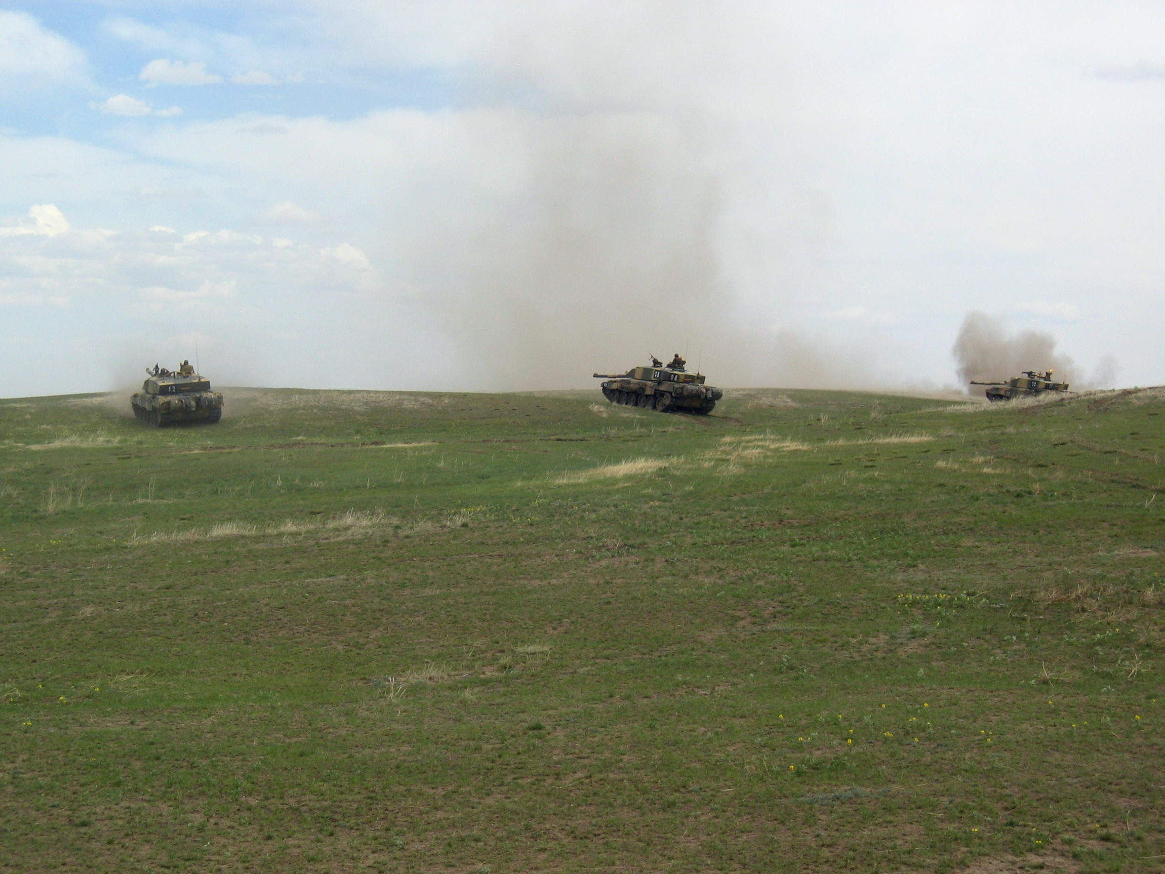 A Troop of Challenger 2s from the Royal Dragoon Guards RDG live firing on exercise in Canada